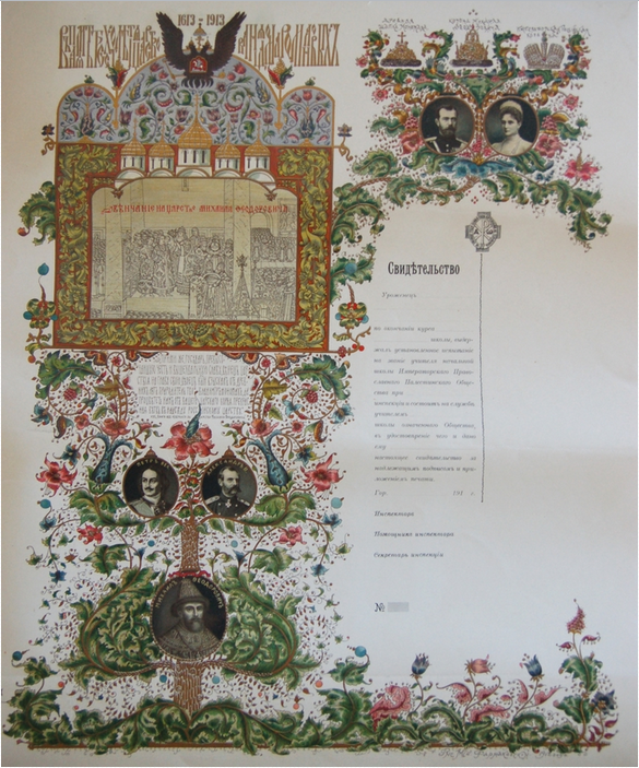 Beit Jala Graduation Certificate published in the honour of 300 years anniversary the House of Romanovs